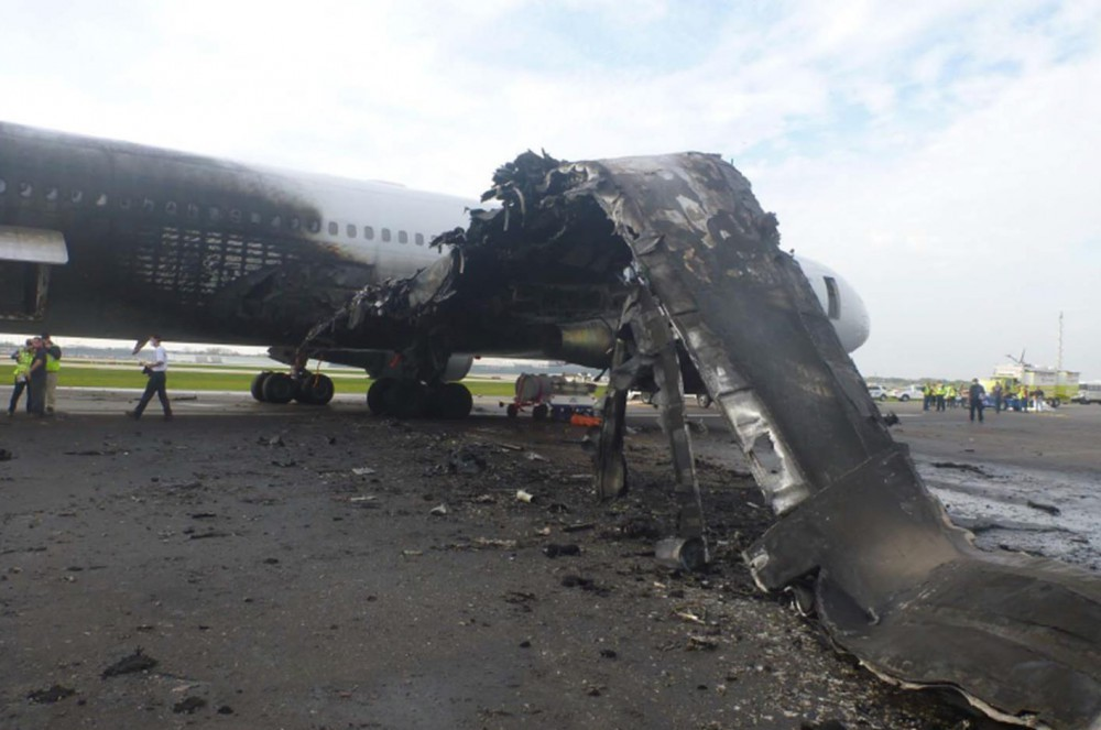 American Airlines Flight 383（N345AN）wreckage